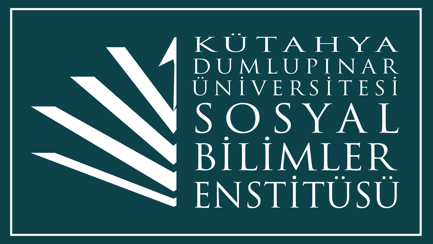 Kütahya Dumlupınar University Institute of Social Sciences logo